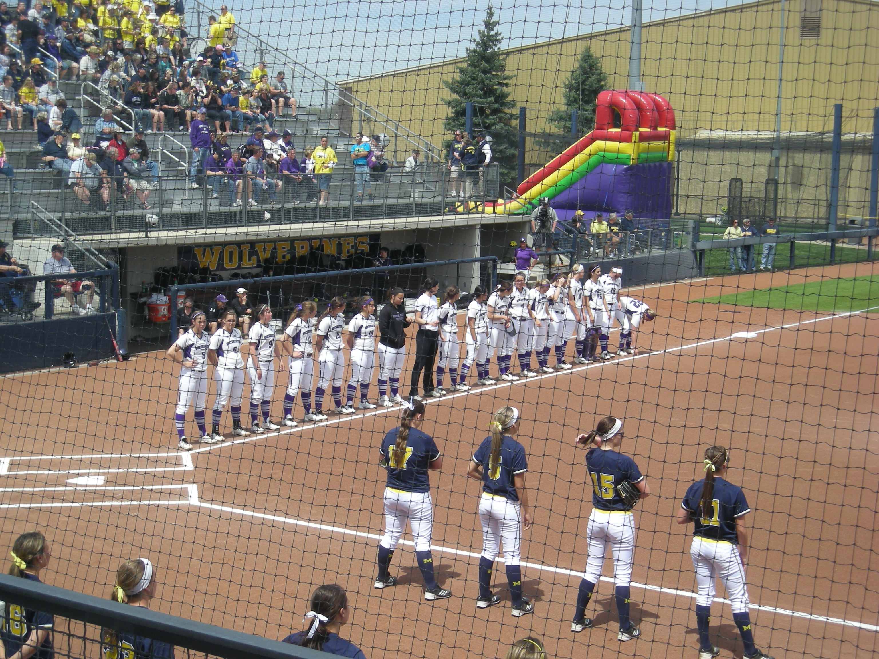 The starting line-ups being announced before the Northwestern Wildcats vs. Michigan Wolverines softball game at Alumni Field in Ann Arbor, Michigan (United States). Michigan won 16–1.